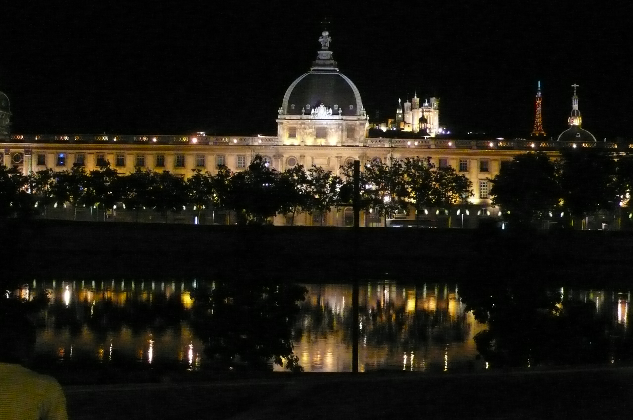 View of Lyon by night from the east bank of the Rhone River.